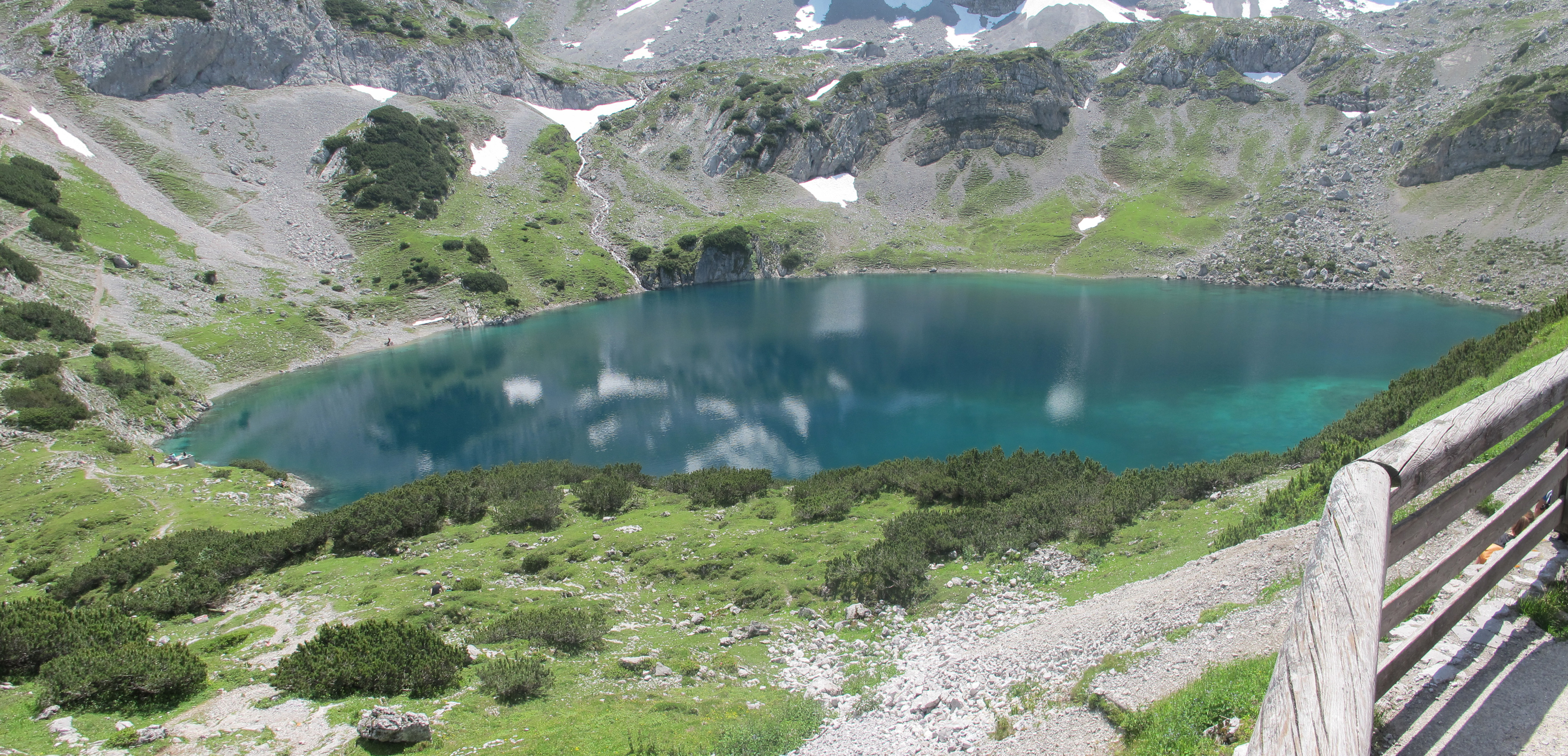 View from the Coburg Hut to the Drachensee (dragon lake)